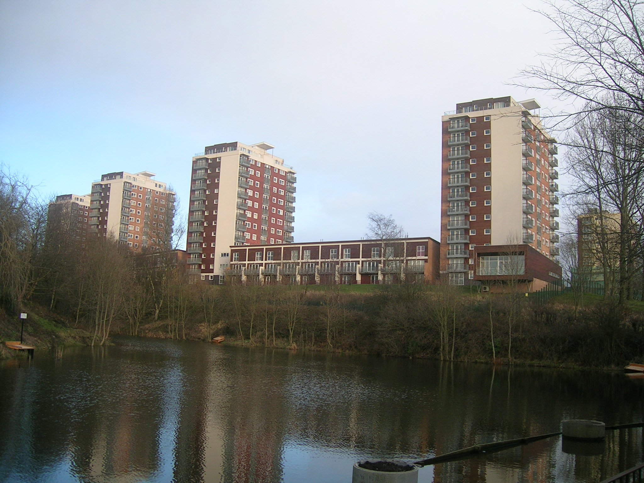 A view of Blackley, in Manchester, England. These are originally council homes built by Manchester City Council in the 1960s.